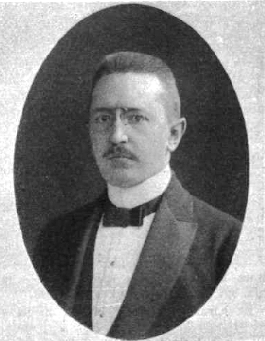 Portrait of Ferenc Szinnyei